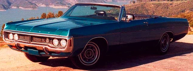 1970 Dodge Polara convertible (with Super-Lite option). Photographed at Castaic in the Castaic Lake State Recreation Area, California, in 2001. Author's own work.